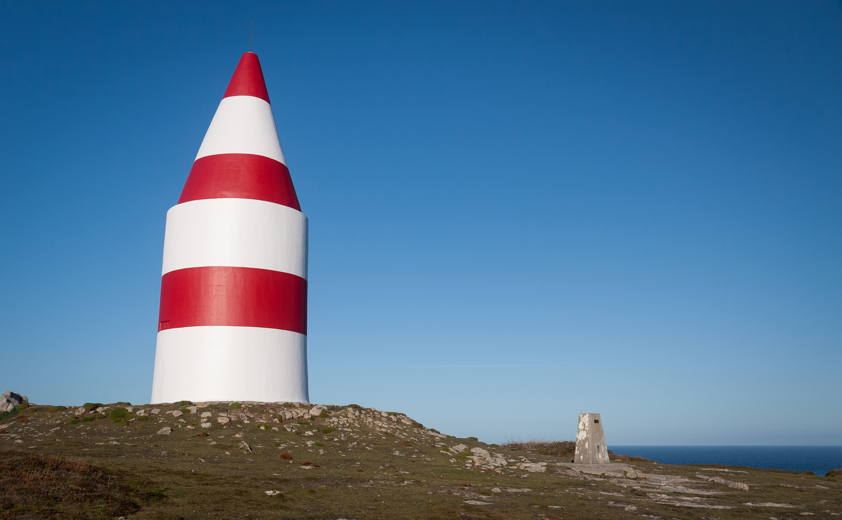 The daymark, St Martins, Isles of Scilly. (Note that the mark leans as pictured) .